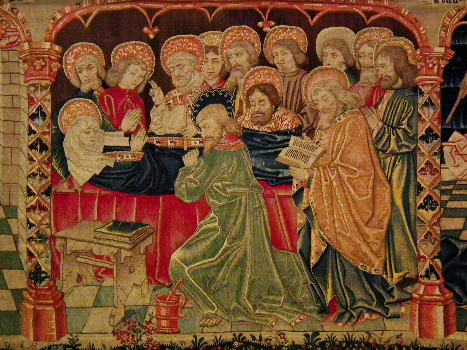 "Dormition of Mary" from the "Tapisseries de la Vierge" Collégiale Notre-Dame Native nameCollégiale Notre-DameLocationBeaune, FranceCoordinates47° 01′ 27.48″ N, 4° 50′ 11.94″ E Established12c (Initial construction)Authority control : Q2002381 VIAF: 167834699 LCCN: n96047365 WorldCat institution QS:P195,Q2002381